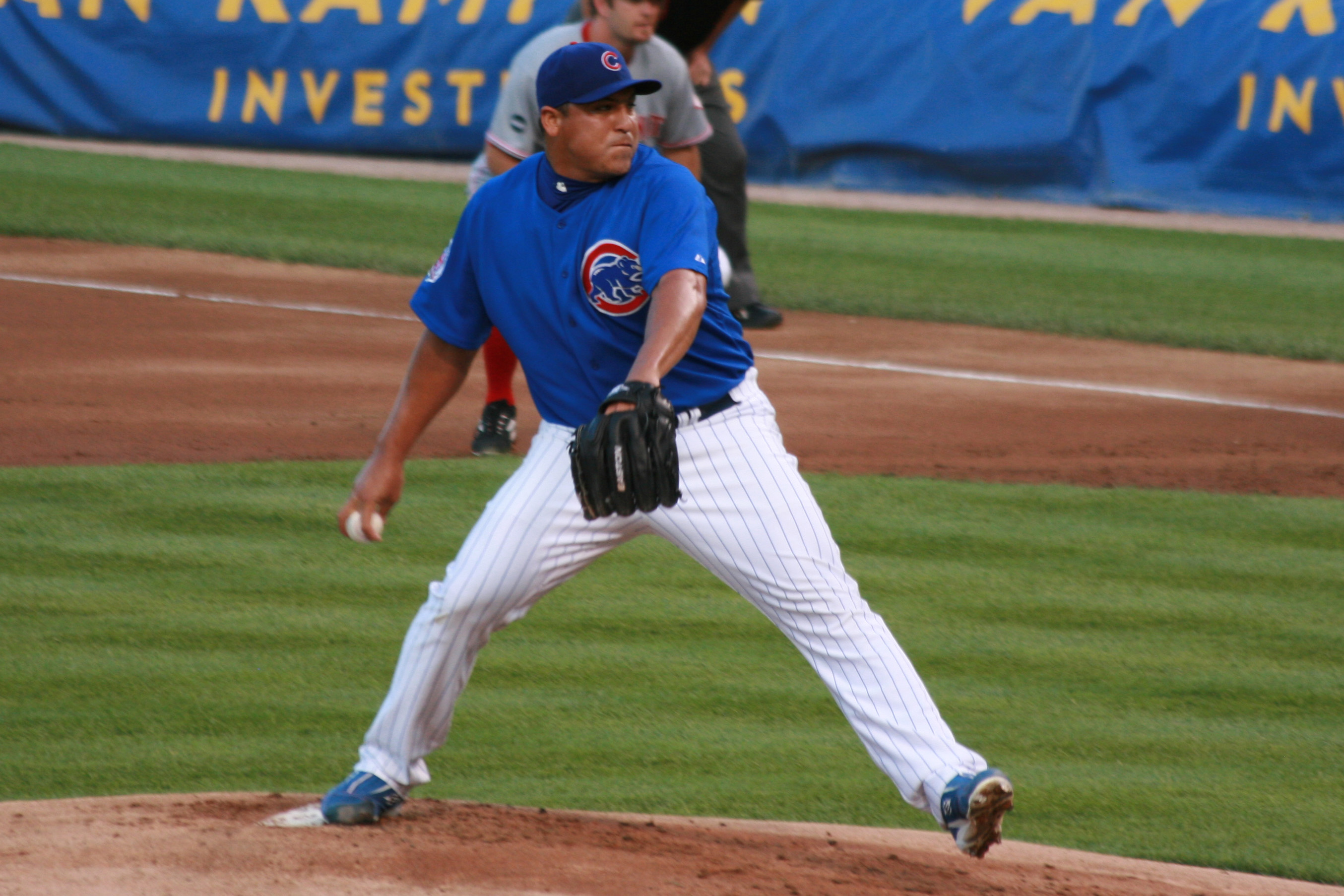 Carlos Zambrano of the Chicago Cubs pitching (cropped).